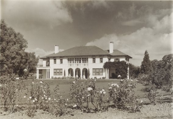 The Lodge, Canberra as seen in 1950.